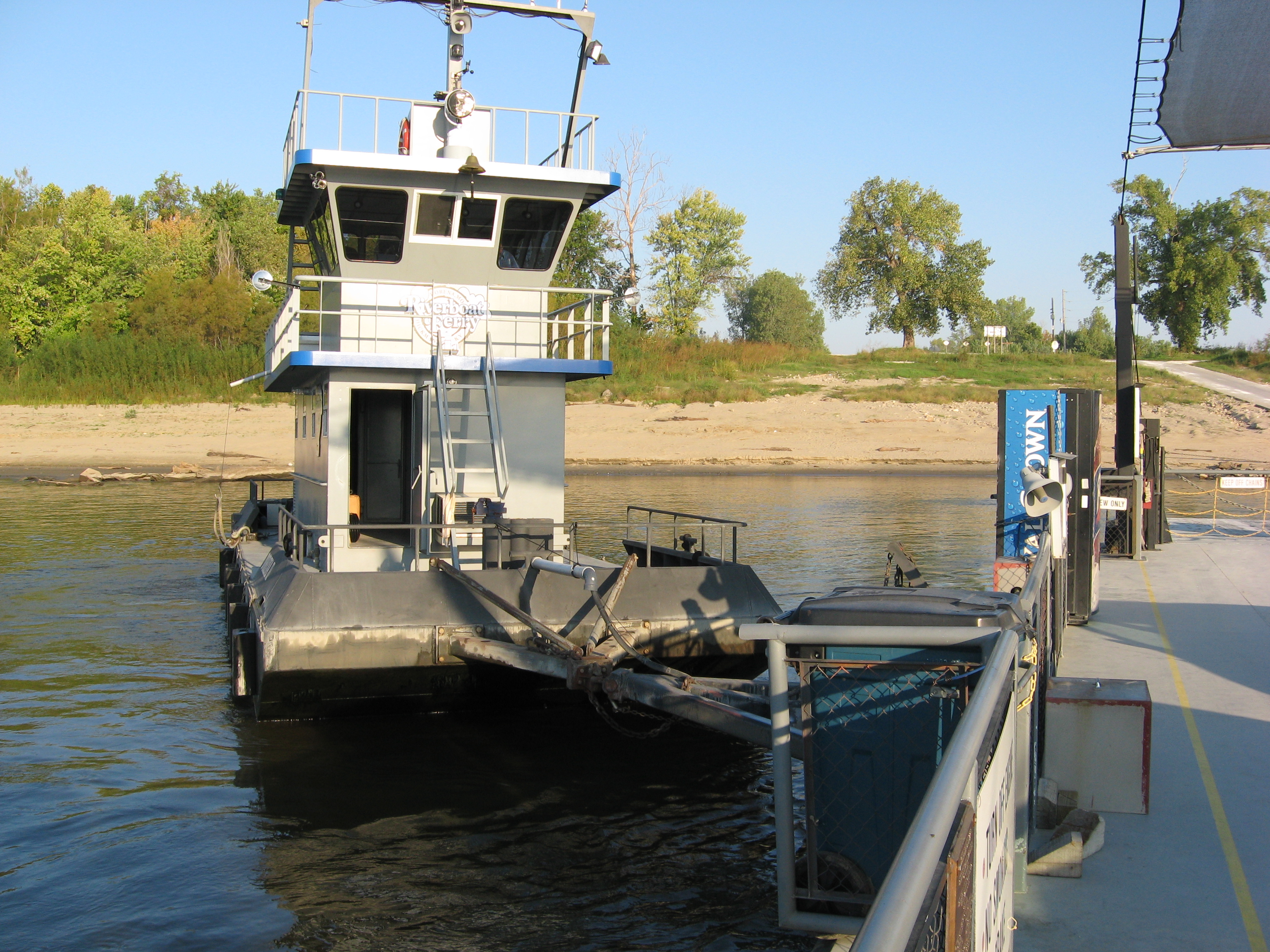 This is the Dorena-Hickman Ferry in Missouri "turning around" to push the car ferry across the river. Note how the tug is attached to the actual ferry body by a simple trailer style connector.